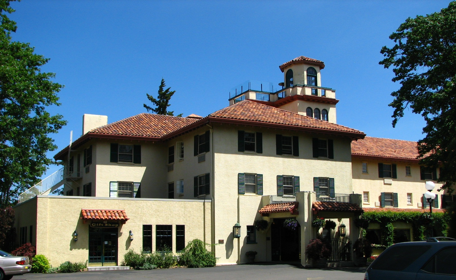 The Columbia Gorge Hotel at 4000 Westcliff Drive in Hood River, Oregon, United States, is listed on the US National Register of Historic Places.